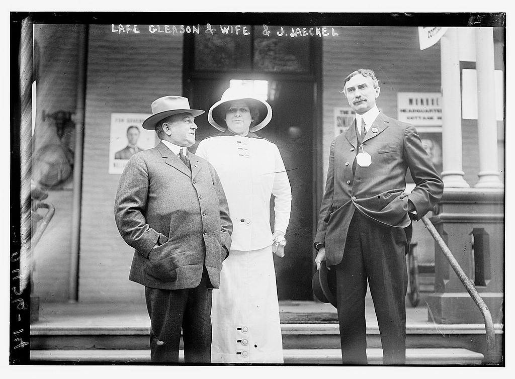 Bain News Service,, publisher. Lafe Gleason & wife & J. Jaeckel [between 1910 and 1915] 1 negative : glass ; 5 x 7 in. or smaller. Notes: Title from unverified data provided by the Bain News Service on the negatives or caption cards. Forms part of: George Grantham Bain Collection (Library of Congress). Format: Glass negatives. Repository: Library of Congress, Prints and Photographs Division, Washington, D.C. 20540 USA, General information about the Bain Collection is available at Persistent URL: Call Number: LC-B2- 2456-14